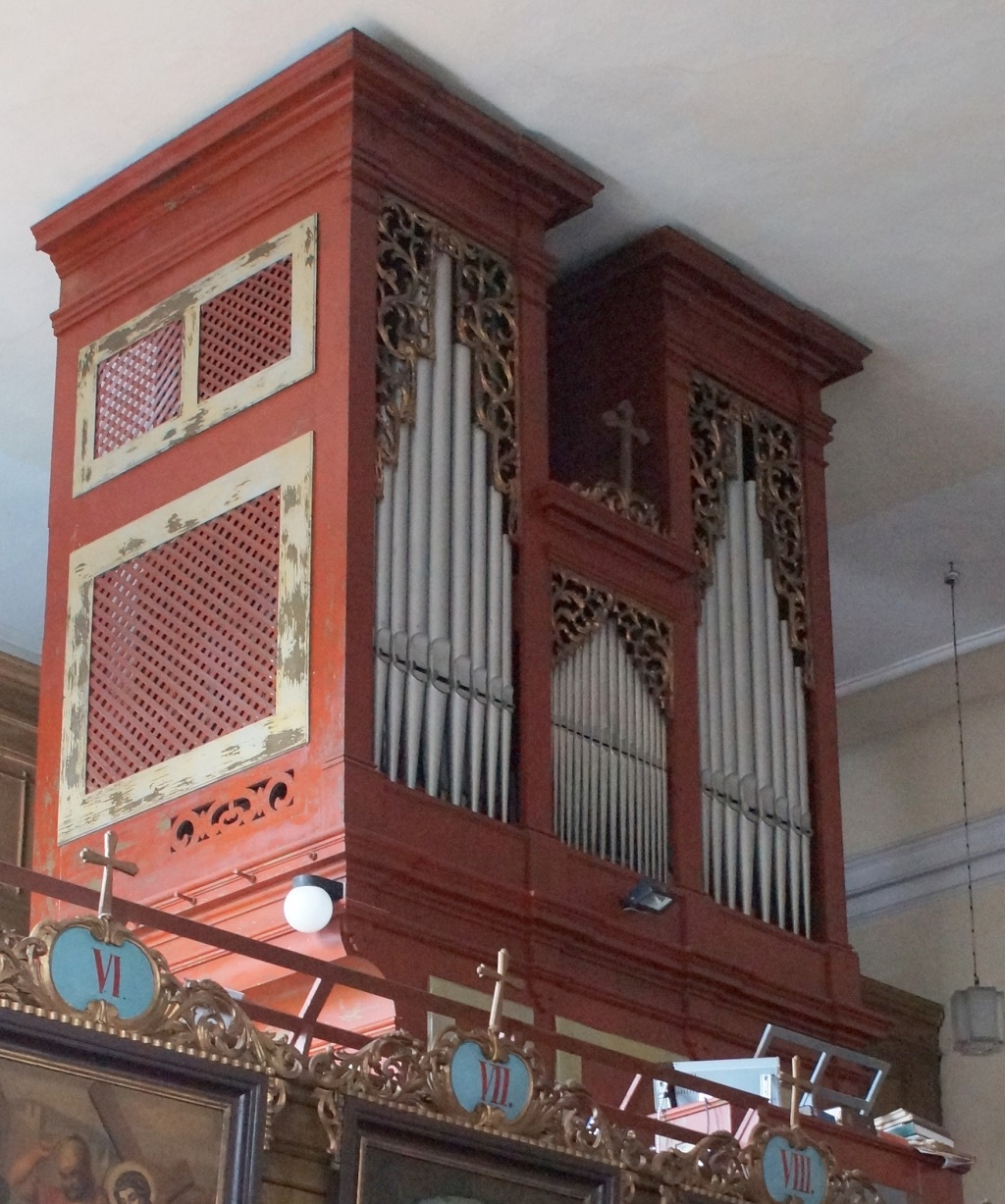 Volary, organ by Breinbauer, 1869